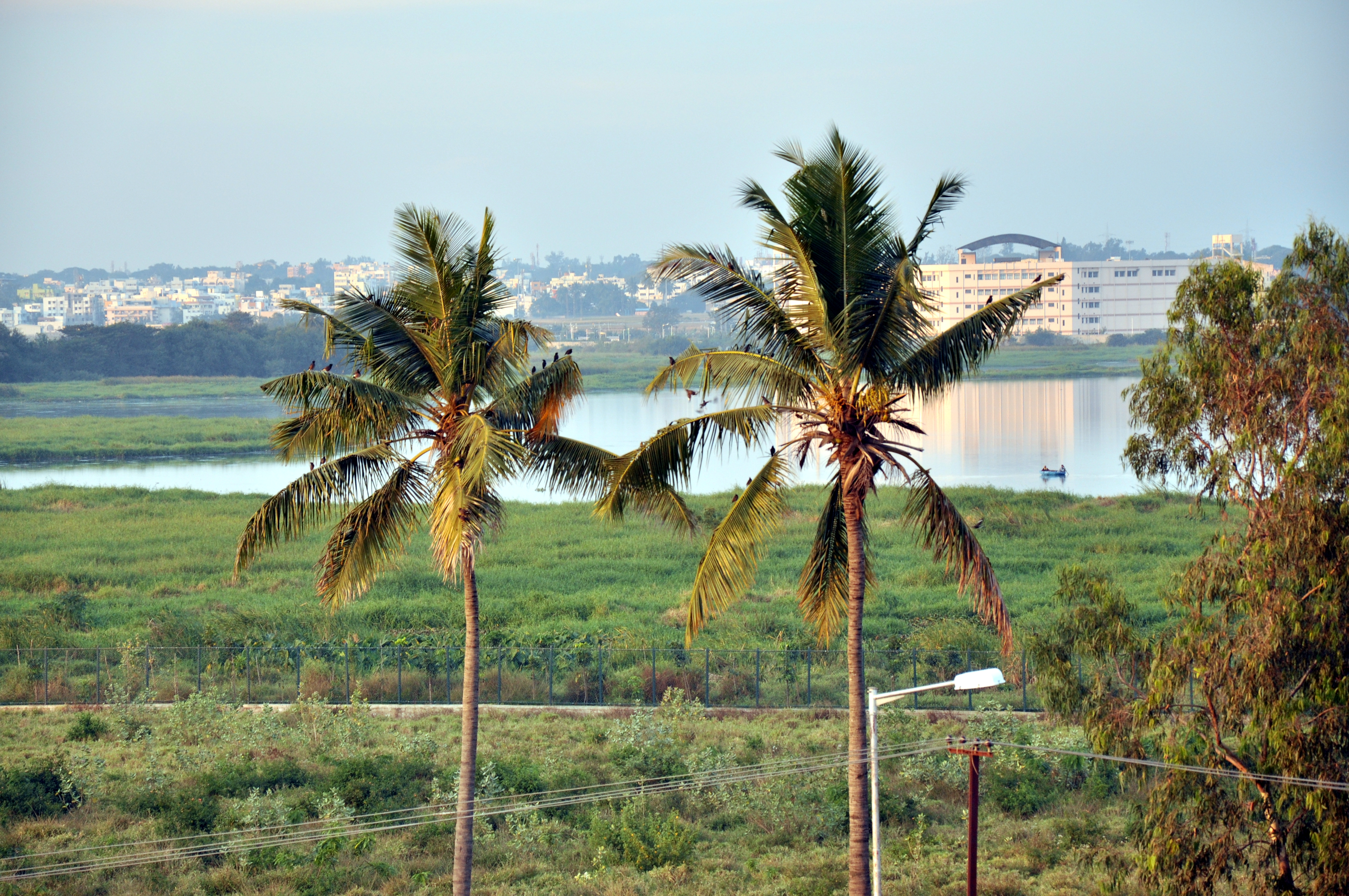 Lake Bellandur is being encroached upon by land sharks, it is used as a dumping place for nearby factories, housing societies and construction sites. The lake is growing smaller and more polluted every day.